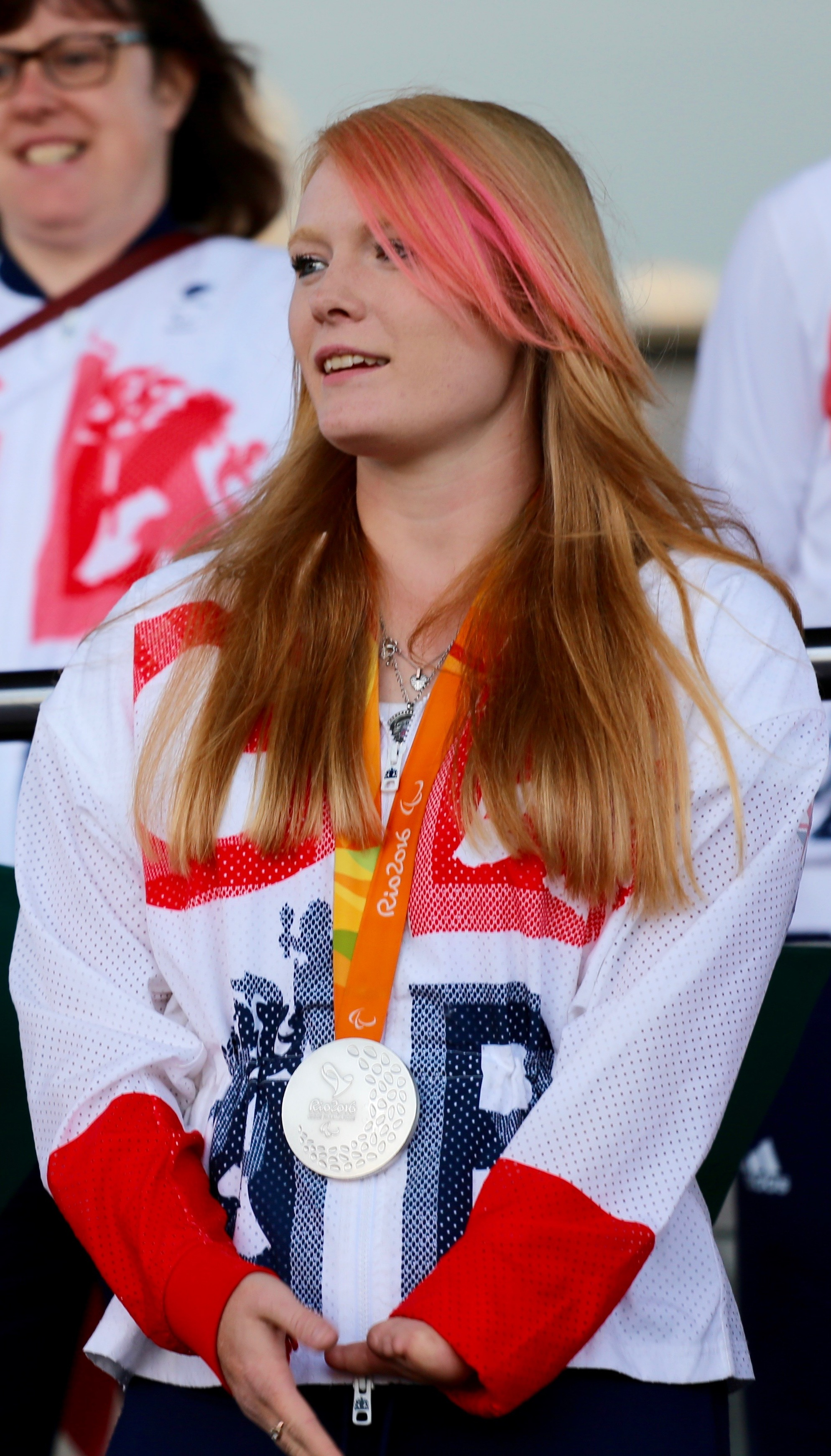 Jodie Grinham, a Welsh Paralympic archer and Becky James, a Welsh Olympic cyclist at the Rio 2016 Homecoming Celebration for Welsh Olympians and Paralympians at the Senedd in Cardiff